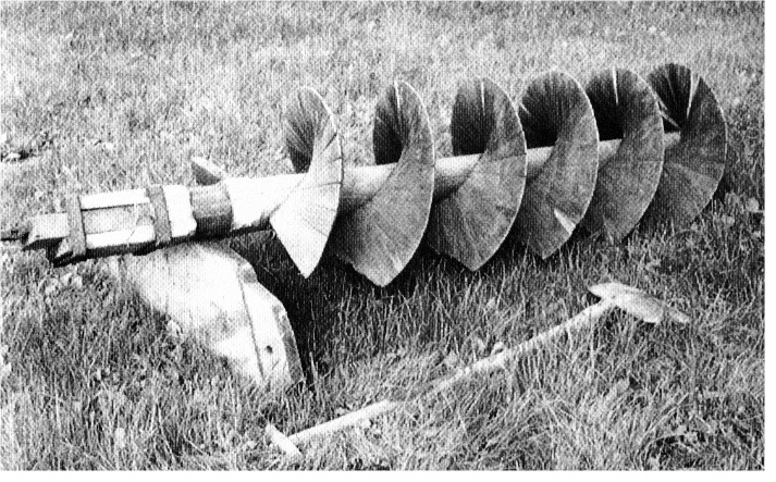 wooden Archimedes' screw